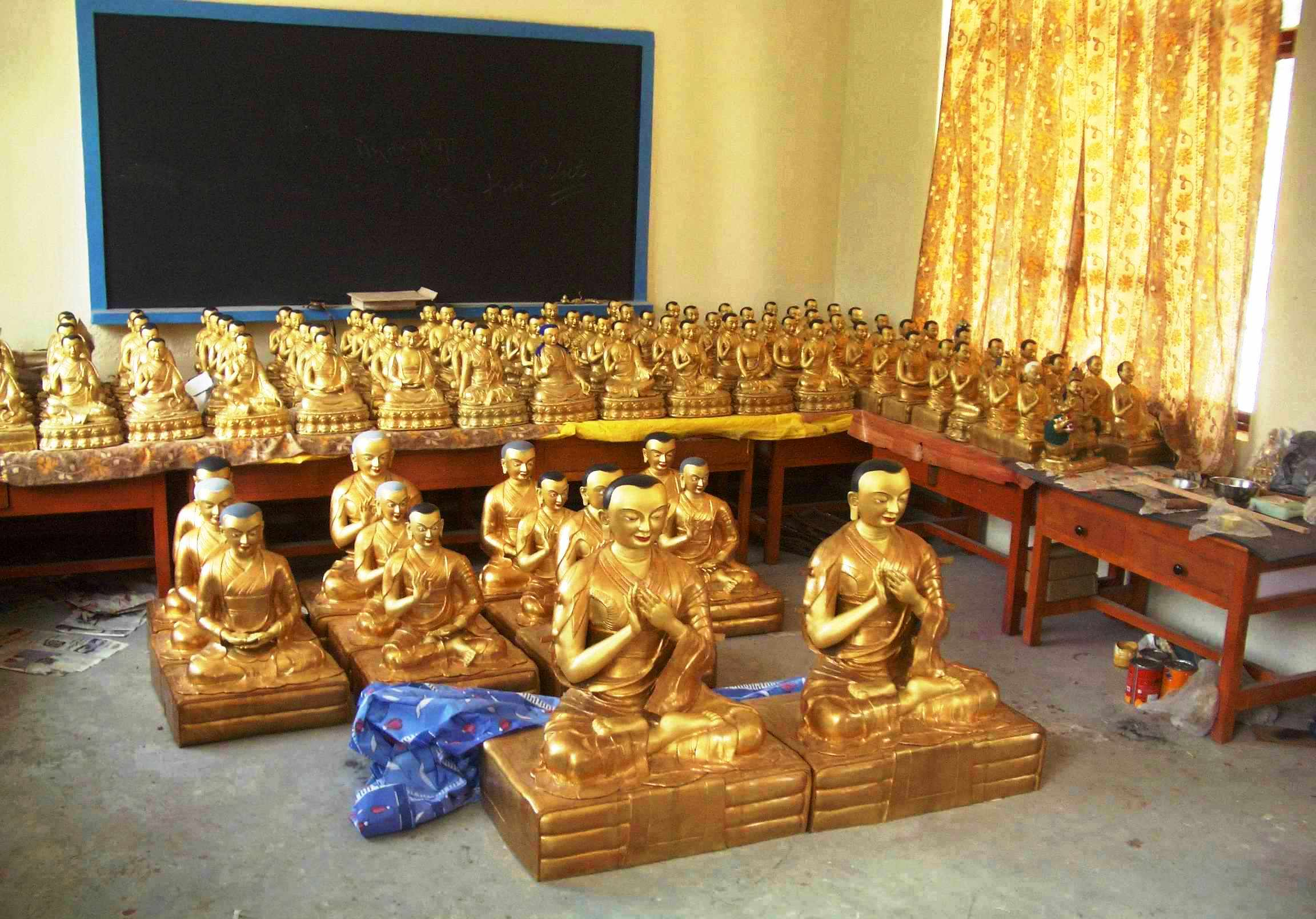 Photo taken in 2004, Kullu, H.P., India